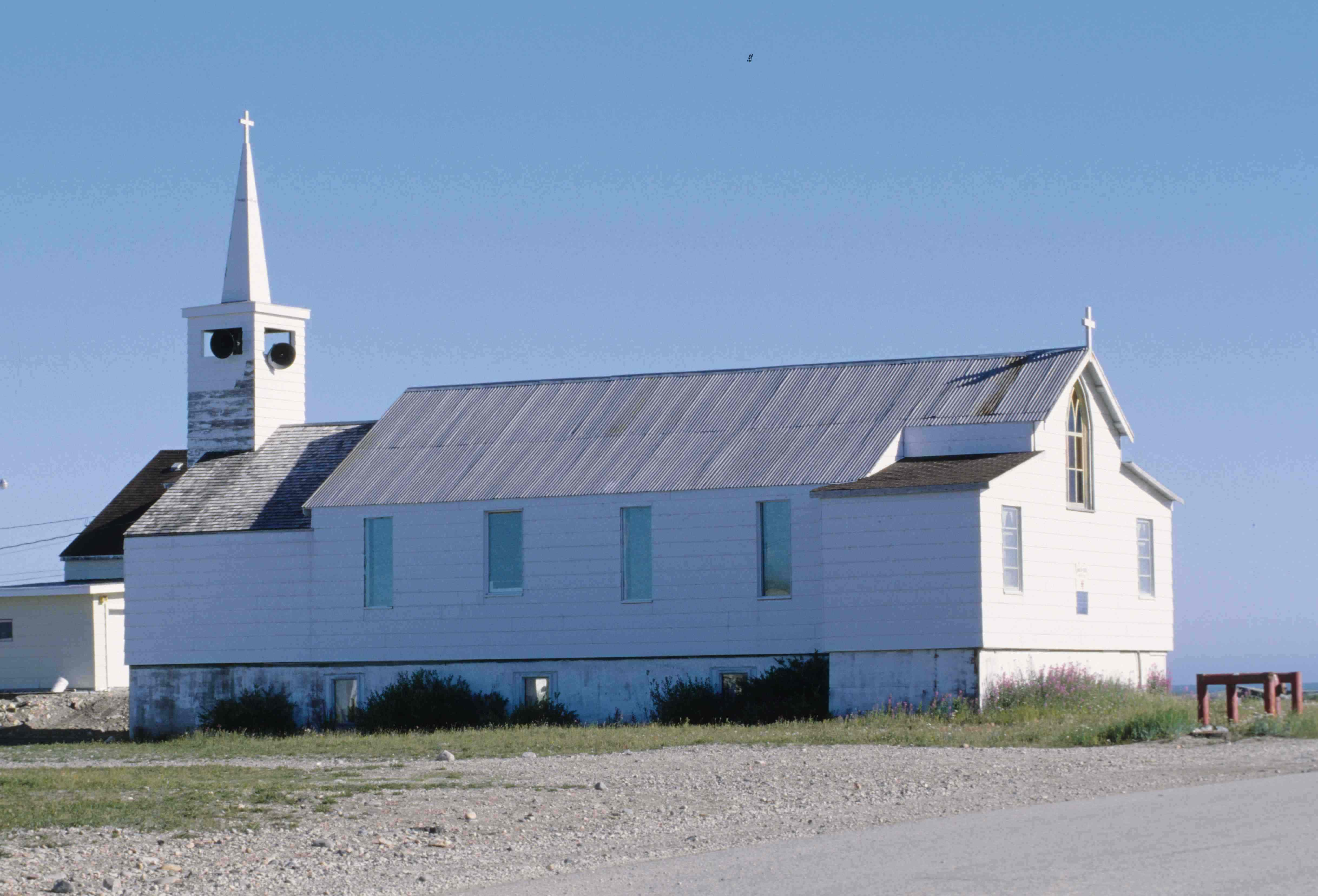 Churchill, Manitoba, Canada: Anglican Church